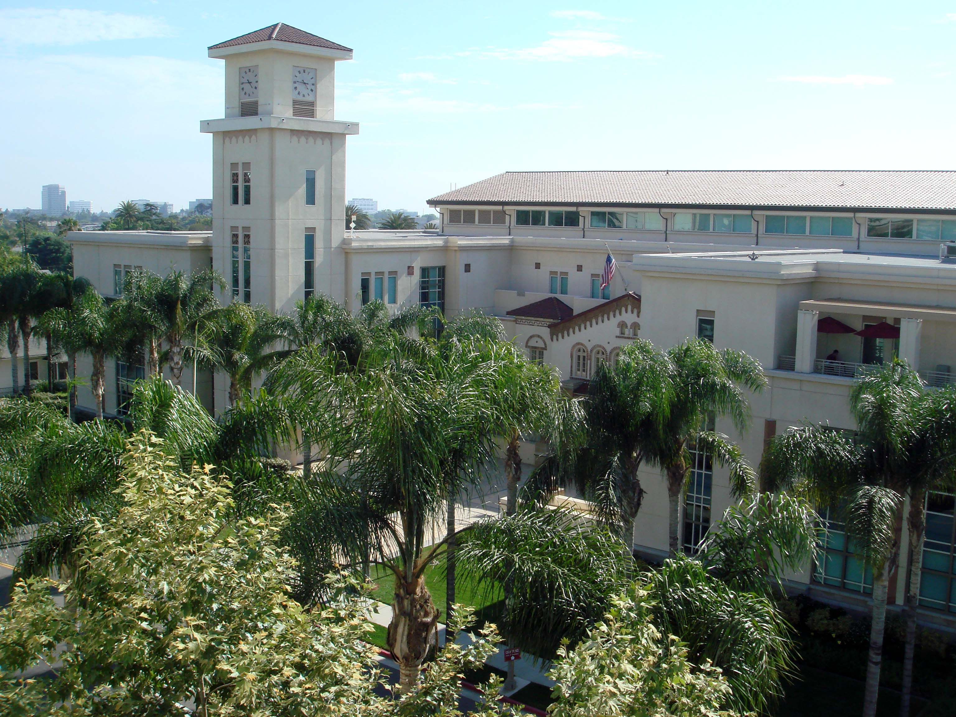 Chapman University School of Law (Orange, California): Pictured is the main building, Donald P. Kennedy Hall.